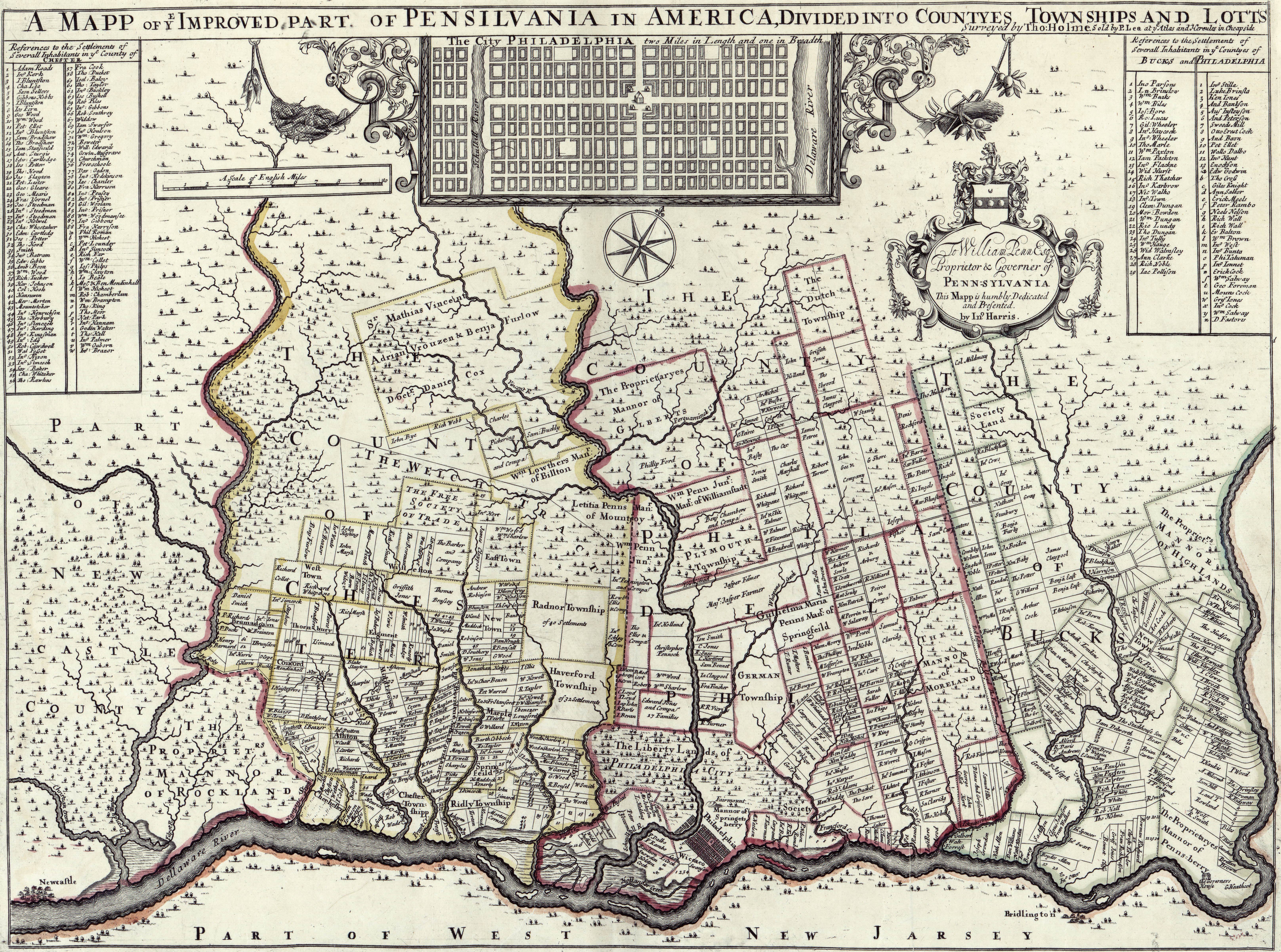 A mapp of ye improved part of Pensilvania in America, divided into countyes townships and lotts, Surveyed by Thomas Holmes for William Penn Esq.. This copy sold by P Lea at Atlas and Hercules in Cheapside.